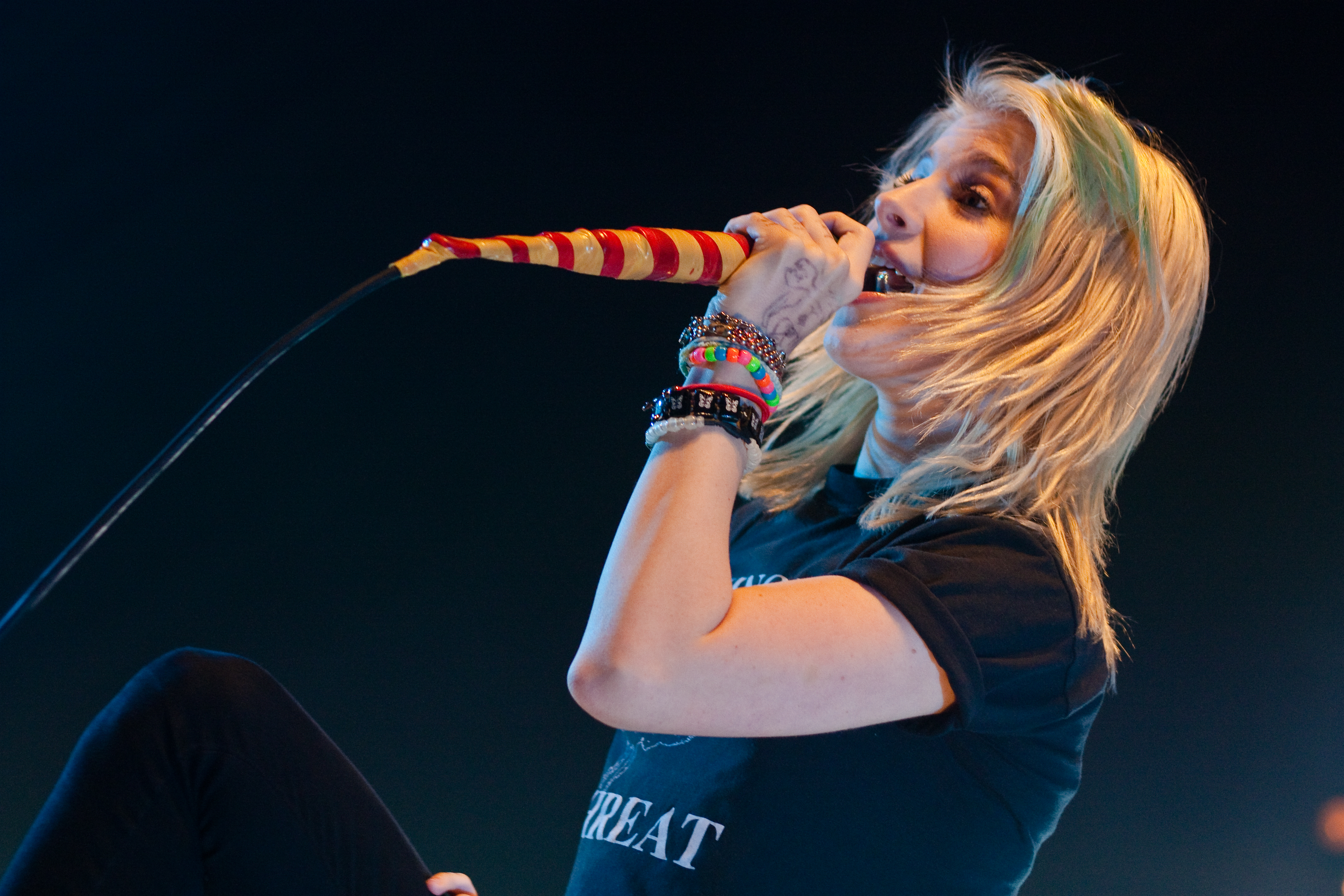 Hayley Williams performing with Paramore at the Warfield